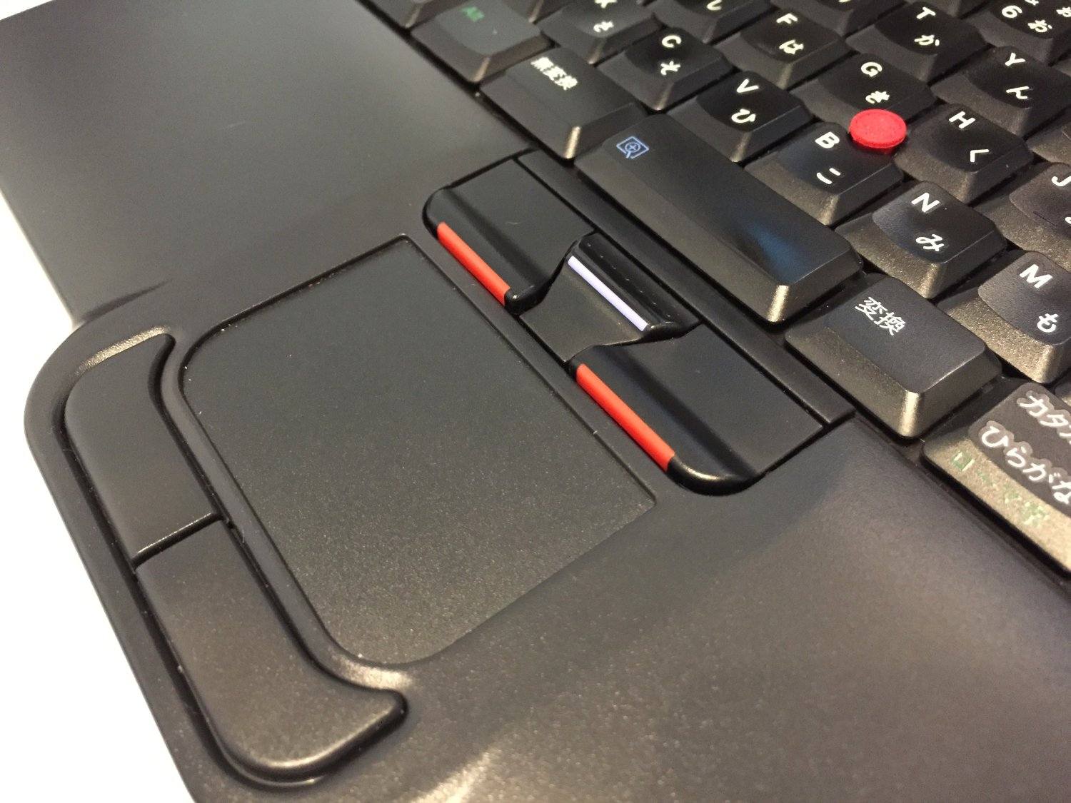 The ThinkPad UltraNav assembly as found on an SK-8845: featuring both a TouchPad and TrackPoint.